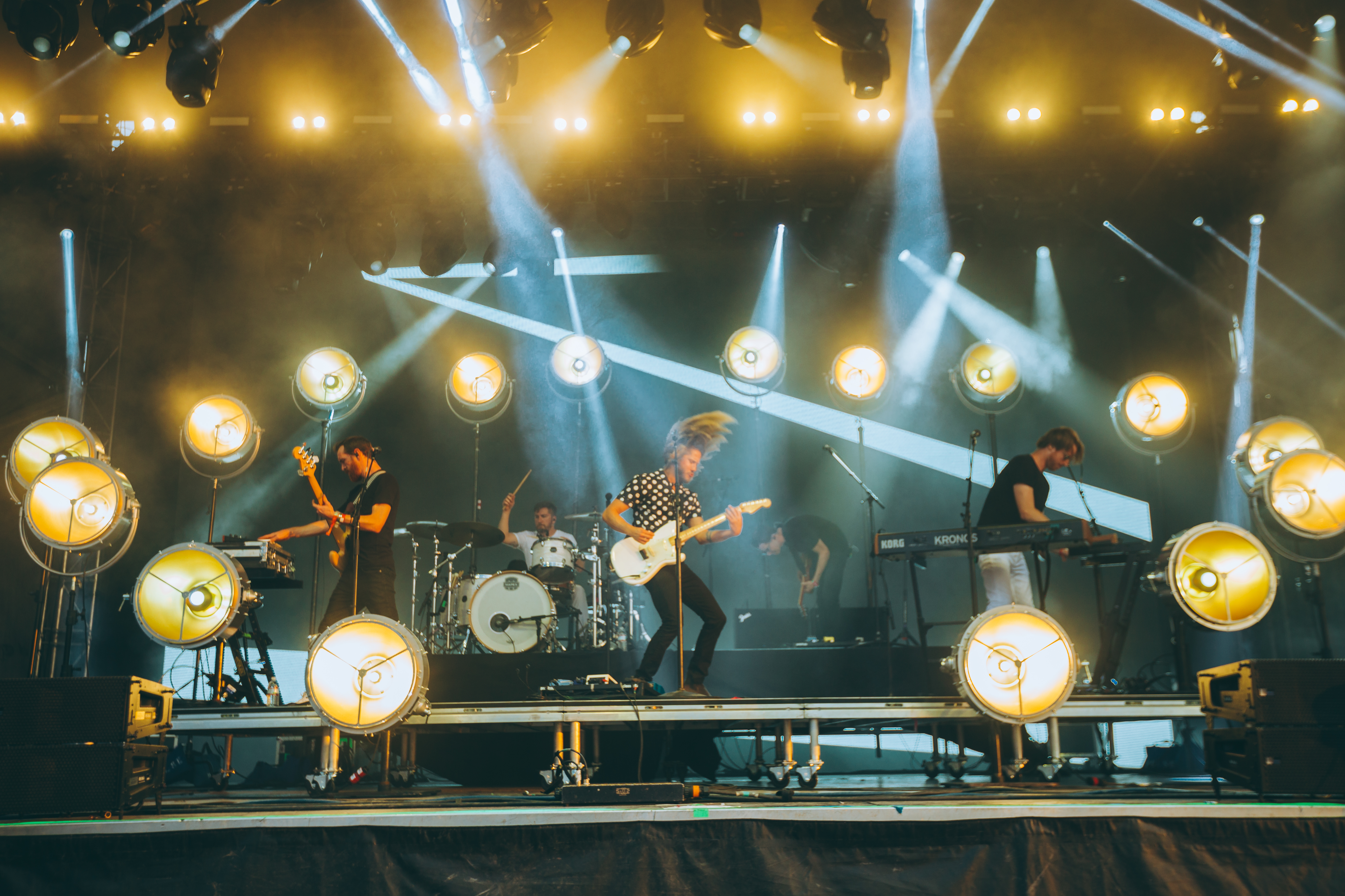 Moon Taxi performs at the 2018 Bonnaroo Music & Arts Festival